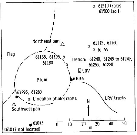 Figure 6-21 (edited slightly). Planimetric map of Apollo 16 Geology Station 1, on the southeast side of Flag crater. X indicates sample locations, 5-digit numbers are LRL sample numbers, rectangle is lunar rover (dot indicates TV camera), black spots are large rocks, dashed lines are crater rims or other topographic features, and triangles are panorama stations.